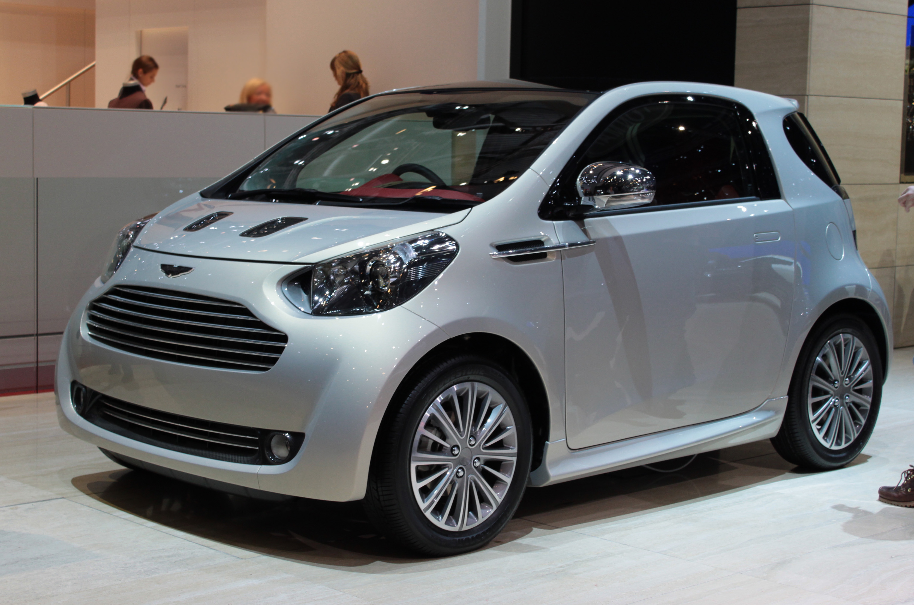 Aston Martin Cygnet at the 2010 Geneva Motor Show